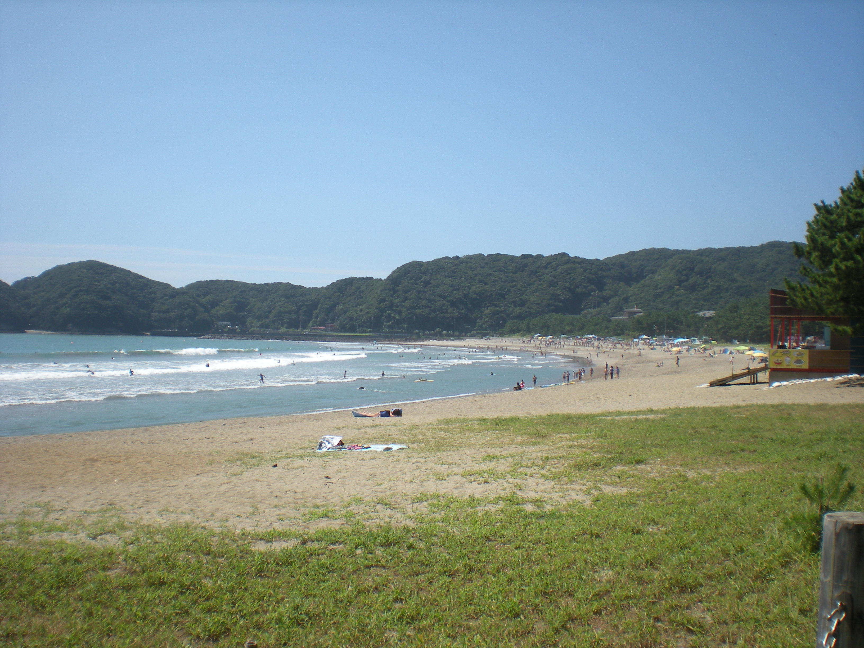 Yumigahama, Minamiizu.